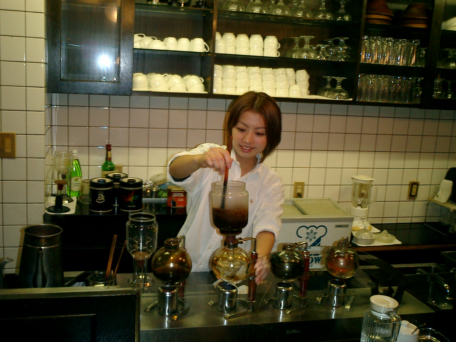 Café in Tokyo, Japan